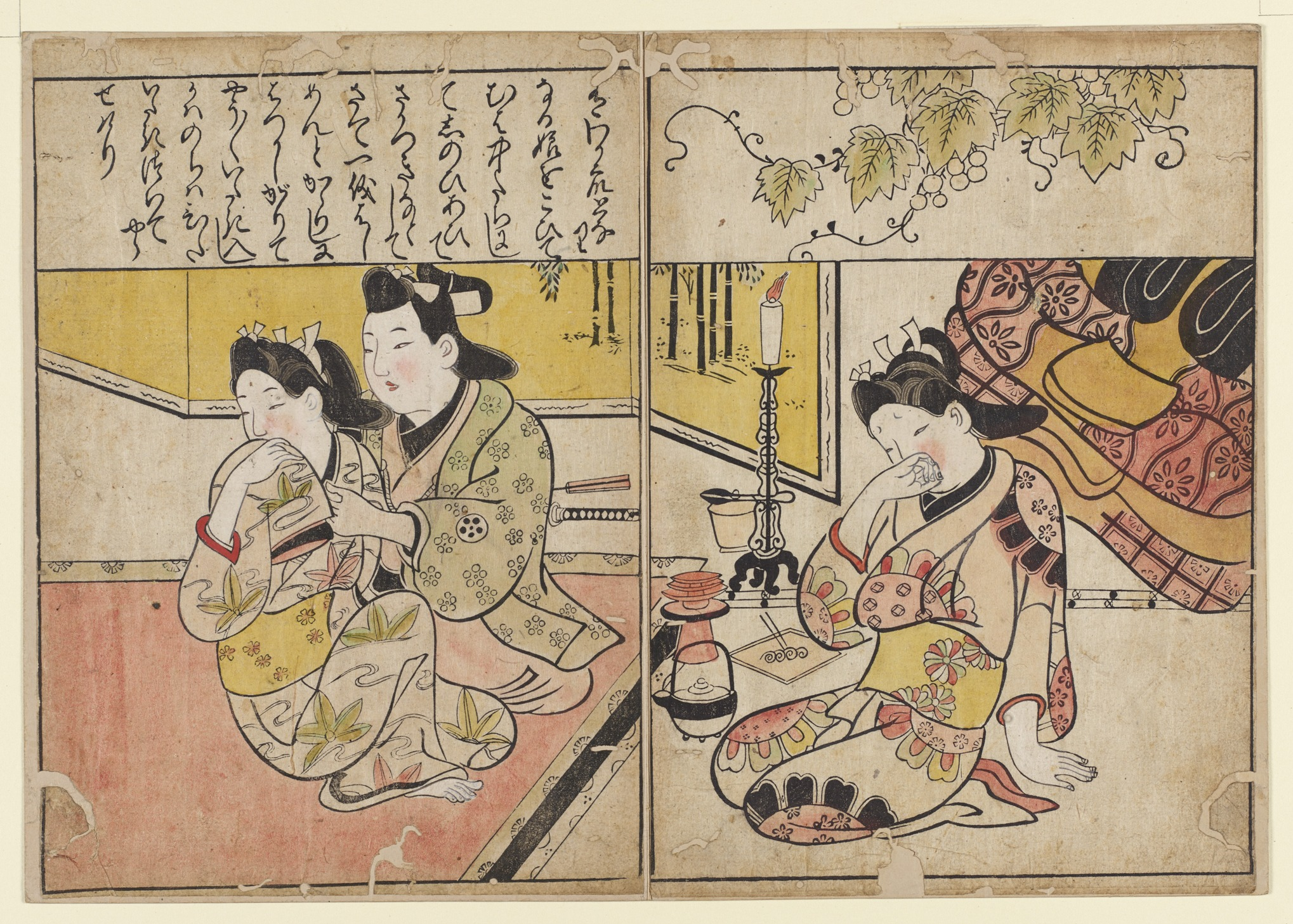 (Artist) Hishikawa Moronobu; Japan; mid 17th-late 17th century; Woodblock print; ink and color on paper, hand-colored; H x W (image): 22.3 x 33.5 cm (8 3/4 x 13 3/16 in); Bequest of John Winter